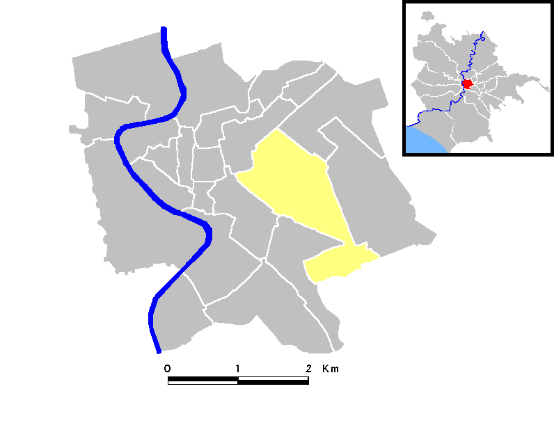 Locator maps of Rome (rioni)